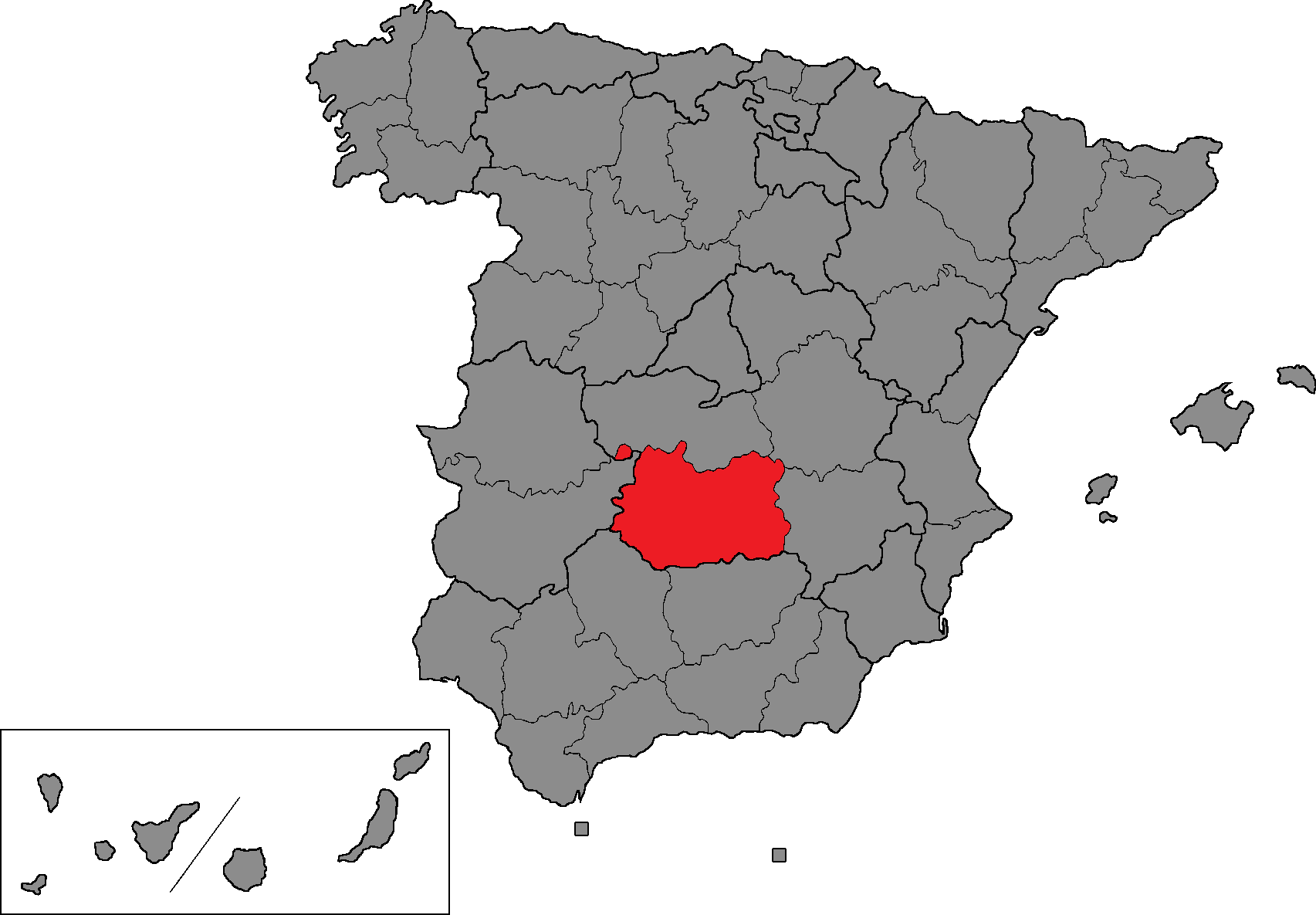 Spanish Congress of Deputies district of Ciudad Real.